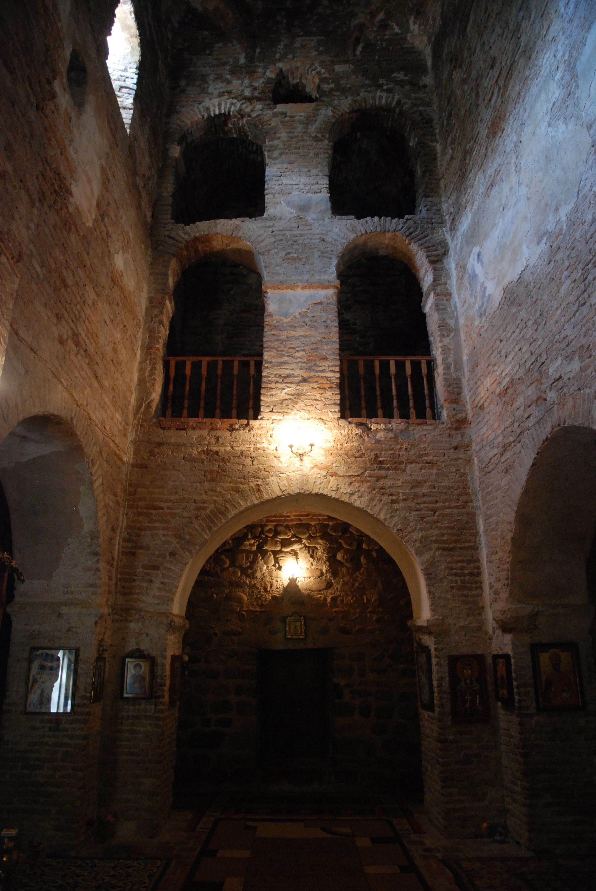 Gurjaani Kvelatsminda, west